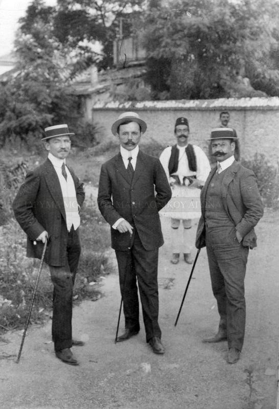 Aleksanros Mazarakis, Alkiviad Moshonisios and Dimitris Kakavos